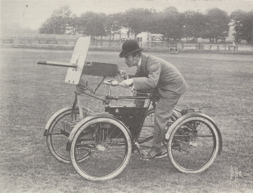 The Simms "Motor Scout" Automobile Club Show, Richmond, 17-24 June 1899 Scanned, and displayed with their consent, from the library of Veteran Car Club of Great Britain